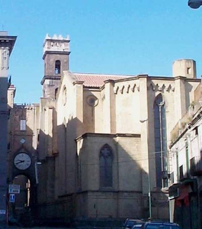 The Church of Sant'Eligio Maggiore in Naples.